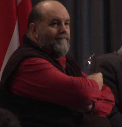 Ovidiu Pecican during a panel discussion at The ICD Annual Conference on Cultural Diplomacy 2012 in Berlin